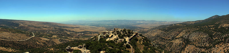 vista del castillo